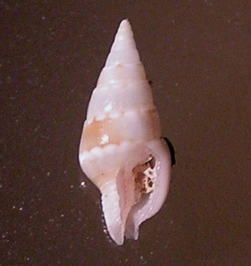 Mitrella bella L. A. Reeve, 1859, a dove snail from the family Columbellidae; Philippines Category:Columbellidae